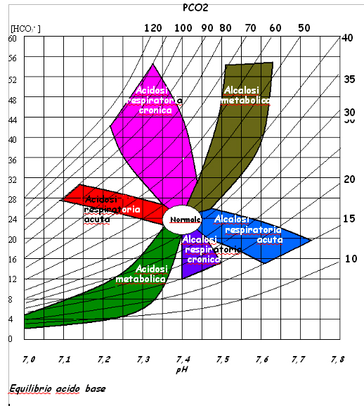 acid base homeostasis